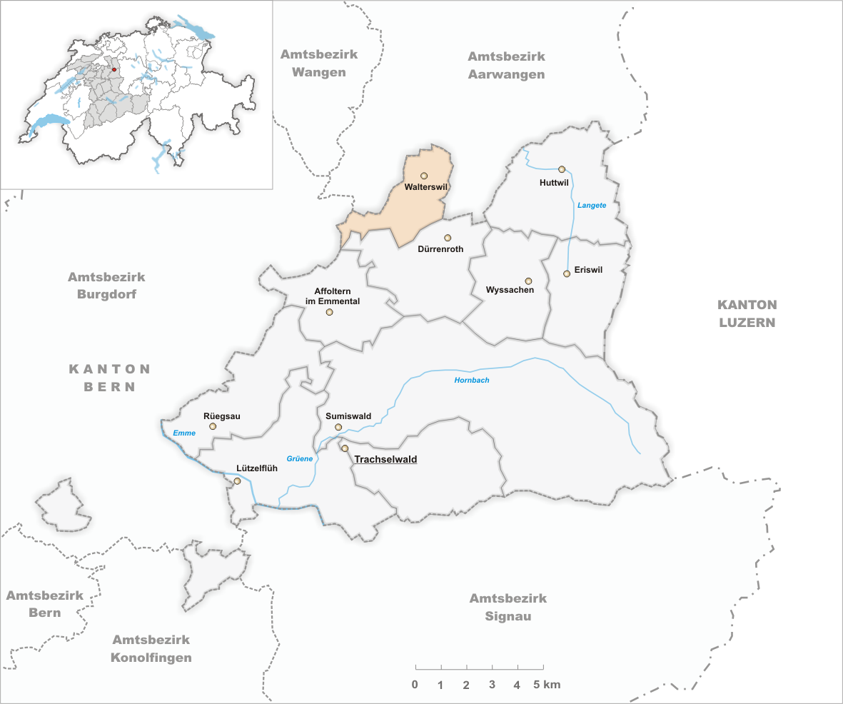 Municipality Walterswil